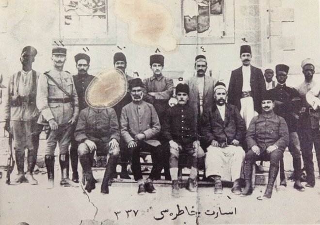 French officer with five Turkish prisoners from Antep (later Gaziantep). The officer has, on his right, a soldier of the French Colonial Forces; on his left, wearing epaulettes, an auxiliary from the French Armenian Legion.